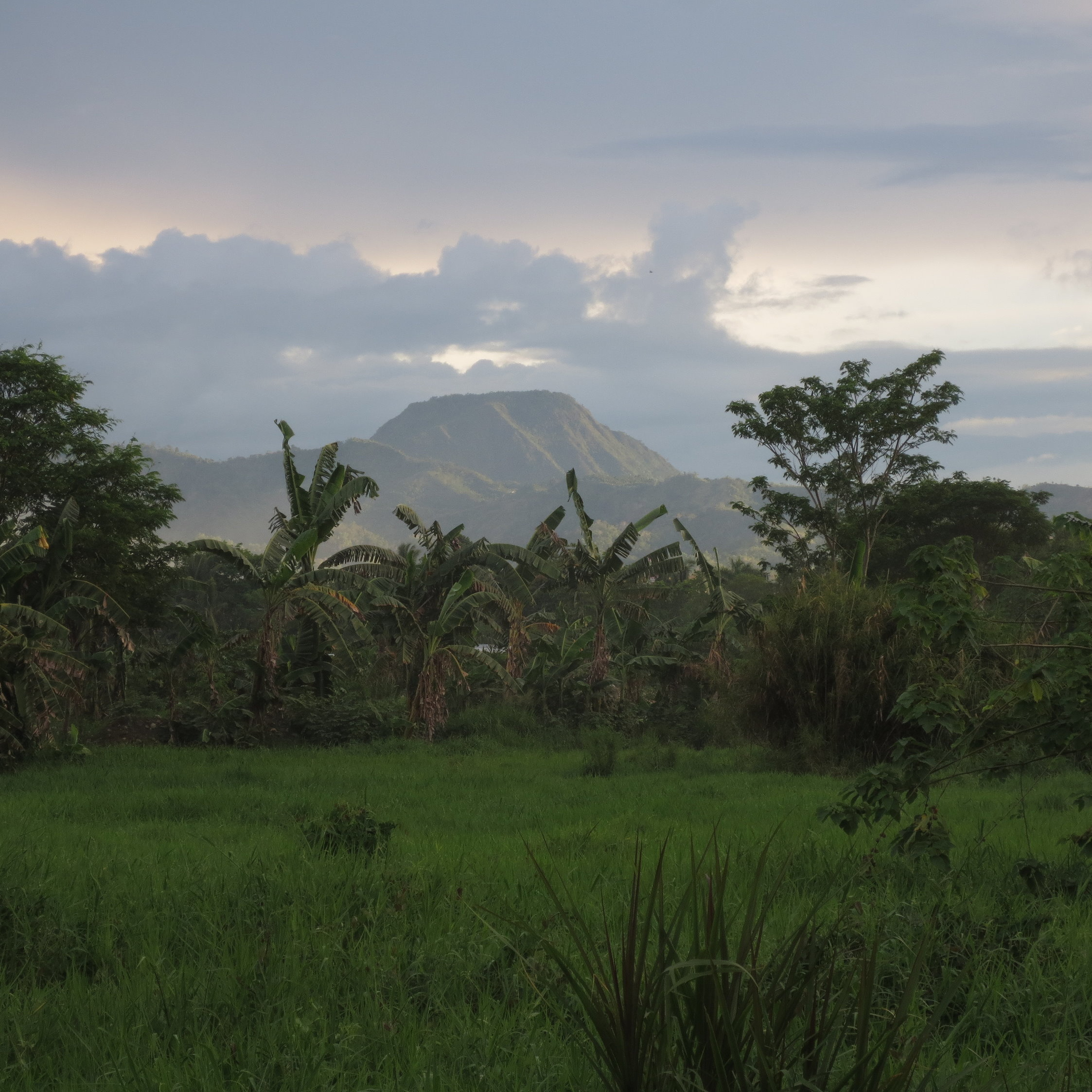 Mt. Mayapay, Butuan City, Agusan del Norte, Philippines